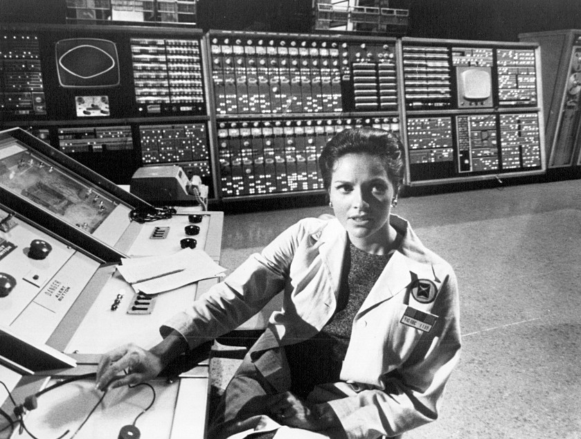 Photo of Lee Meriwether as Dr. Ann MacGregor from the television series The Time Tunnel.